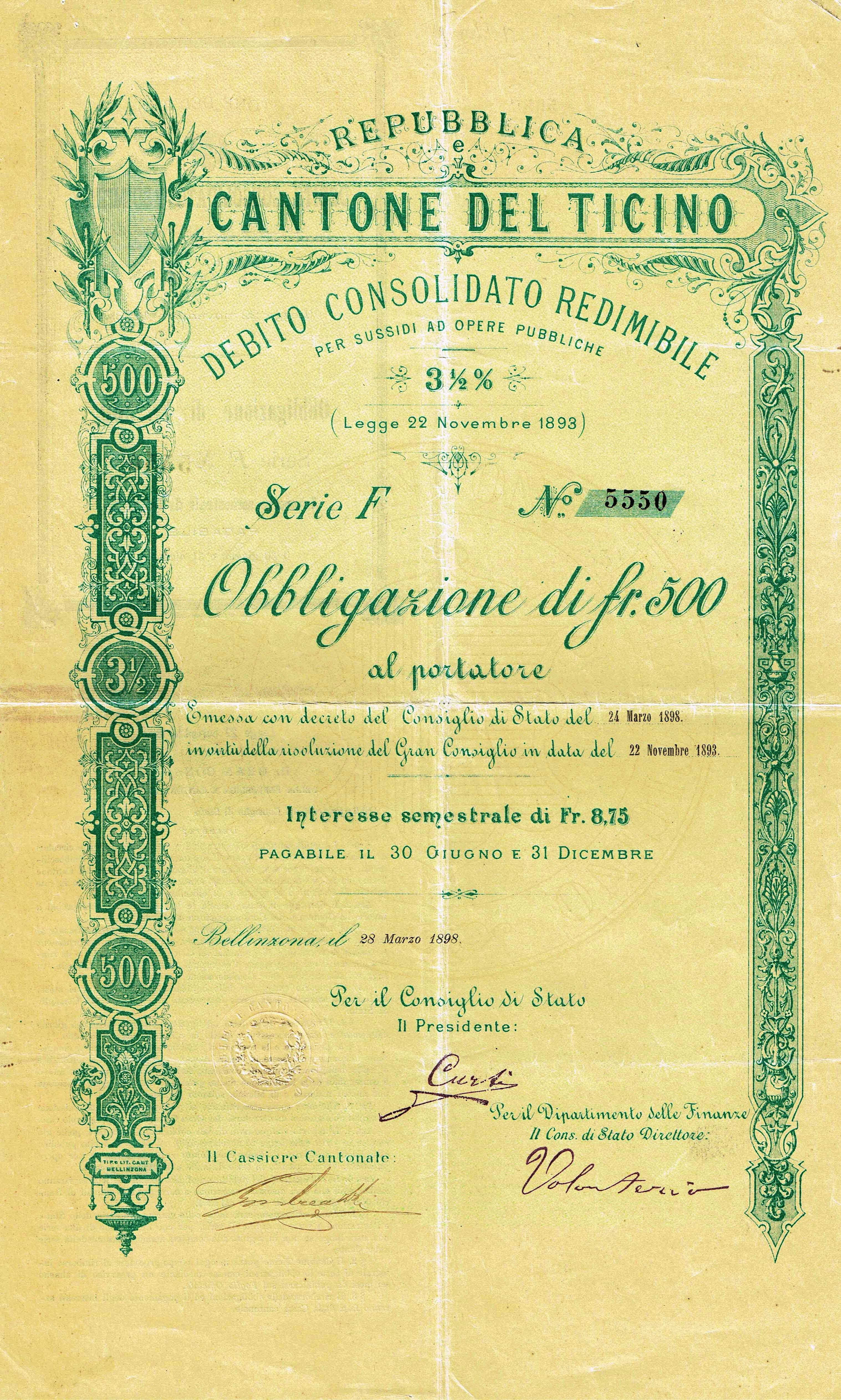 Bond of the canton of Ticino, issued 28. March 1898